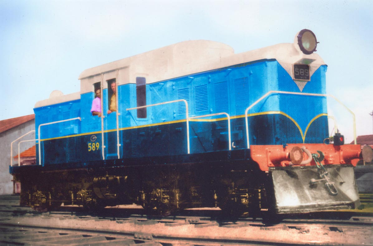 this is the First Diesel electric locomotive which is manufactured locally.